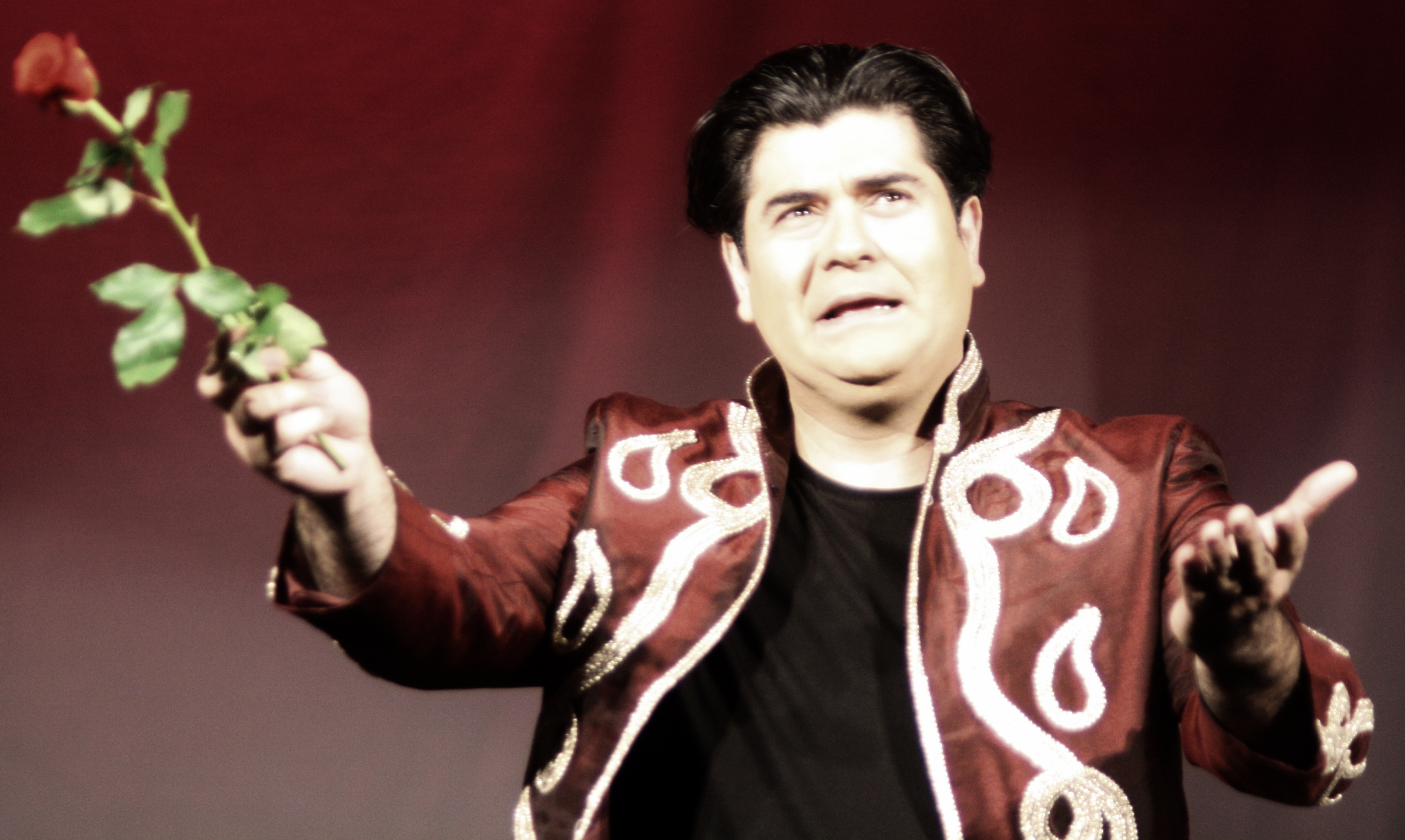 Salar Aghili in 2015